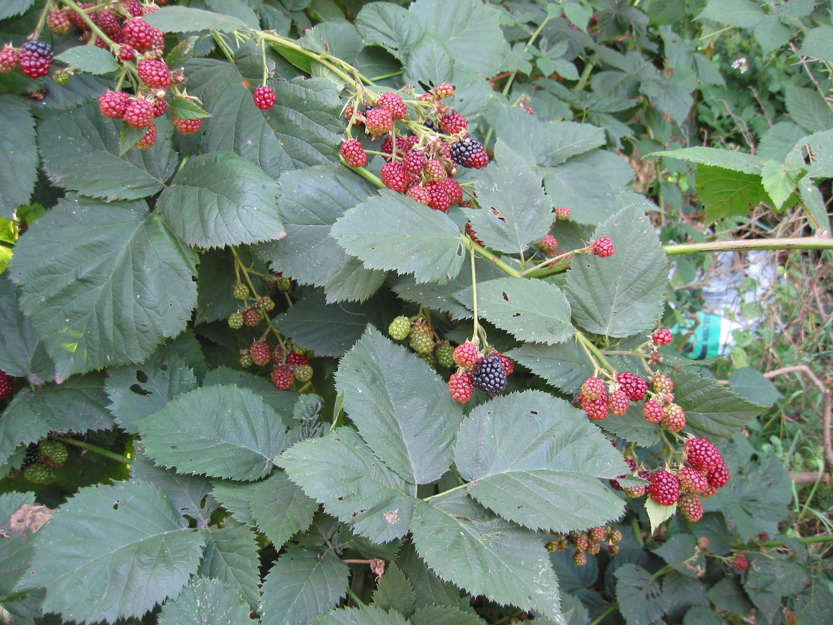 (nl: Braam vruchten 'Thornfree') Rubus fruits 'Thornfree'